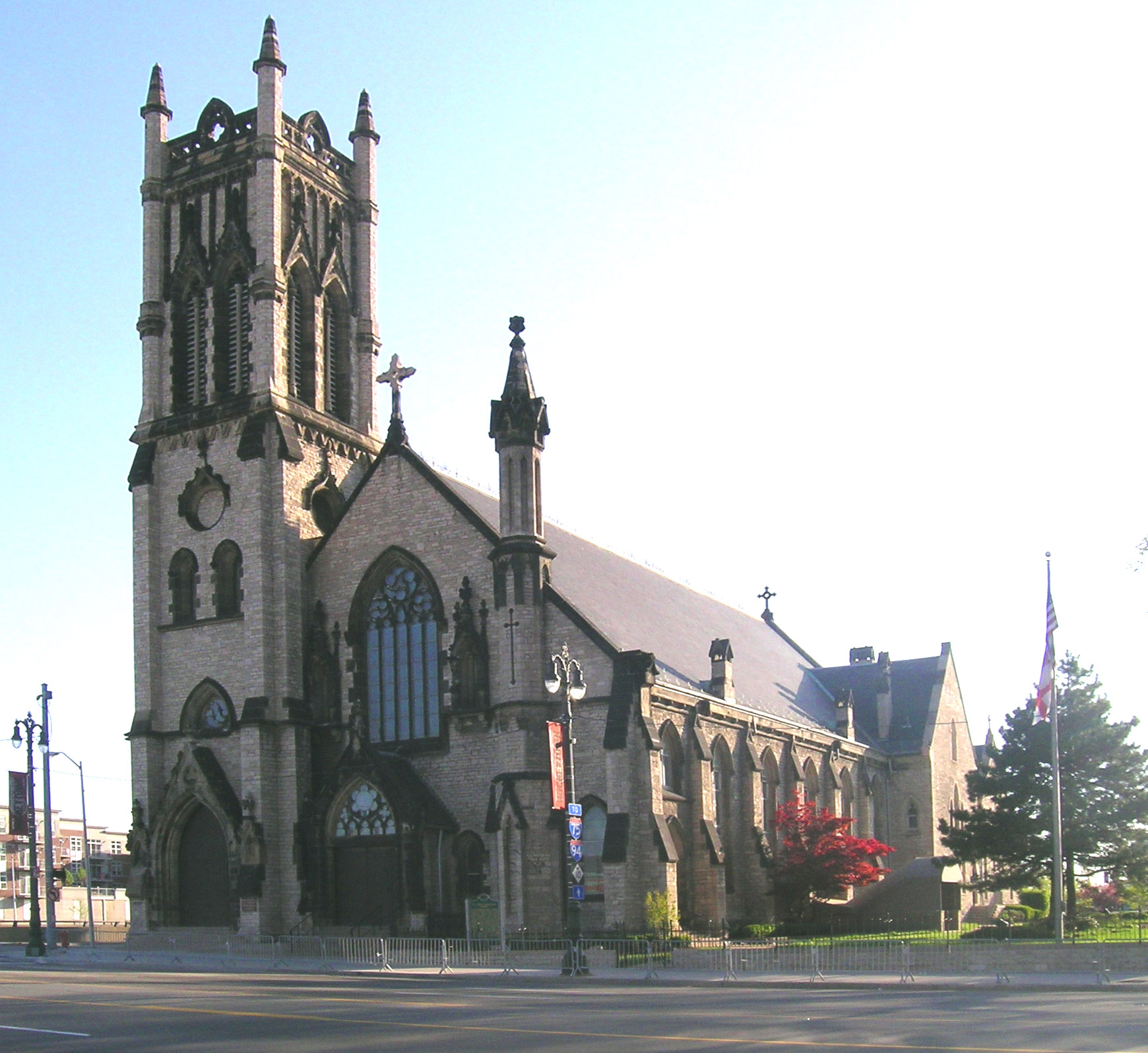 St. John's Episcopal Church in Detroit, Michigan, United States, is listed on the US National Register of Historic Places (NRHP). NRHP reference number 82002906